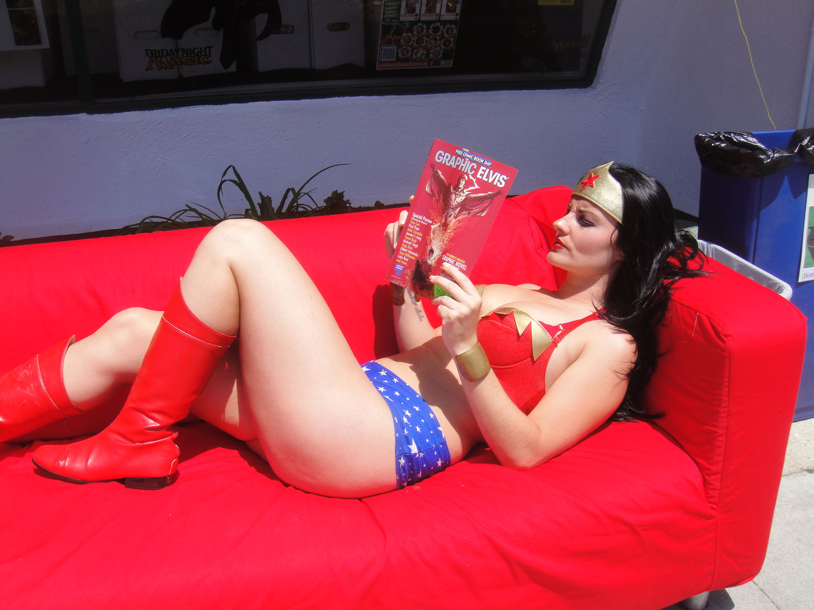 Free Comic Book Day 2012 - Wonder Woman relaxes with a good book